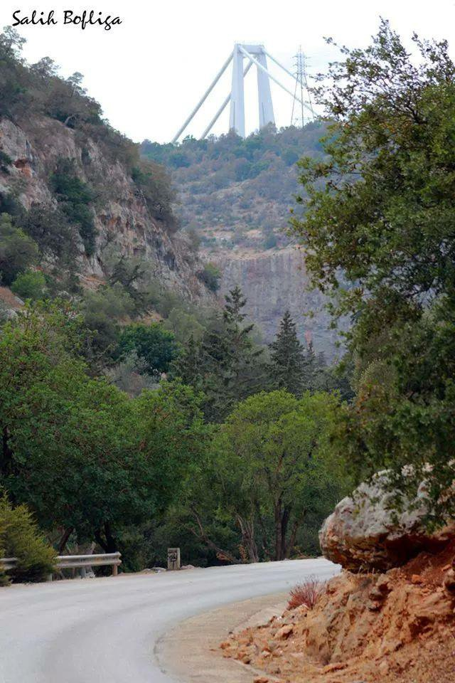 This is an image with the theme "Africa on the Move or Transport" from: Libyan Arab Jamahiriya